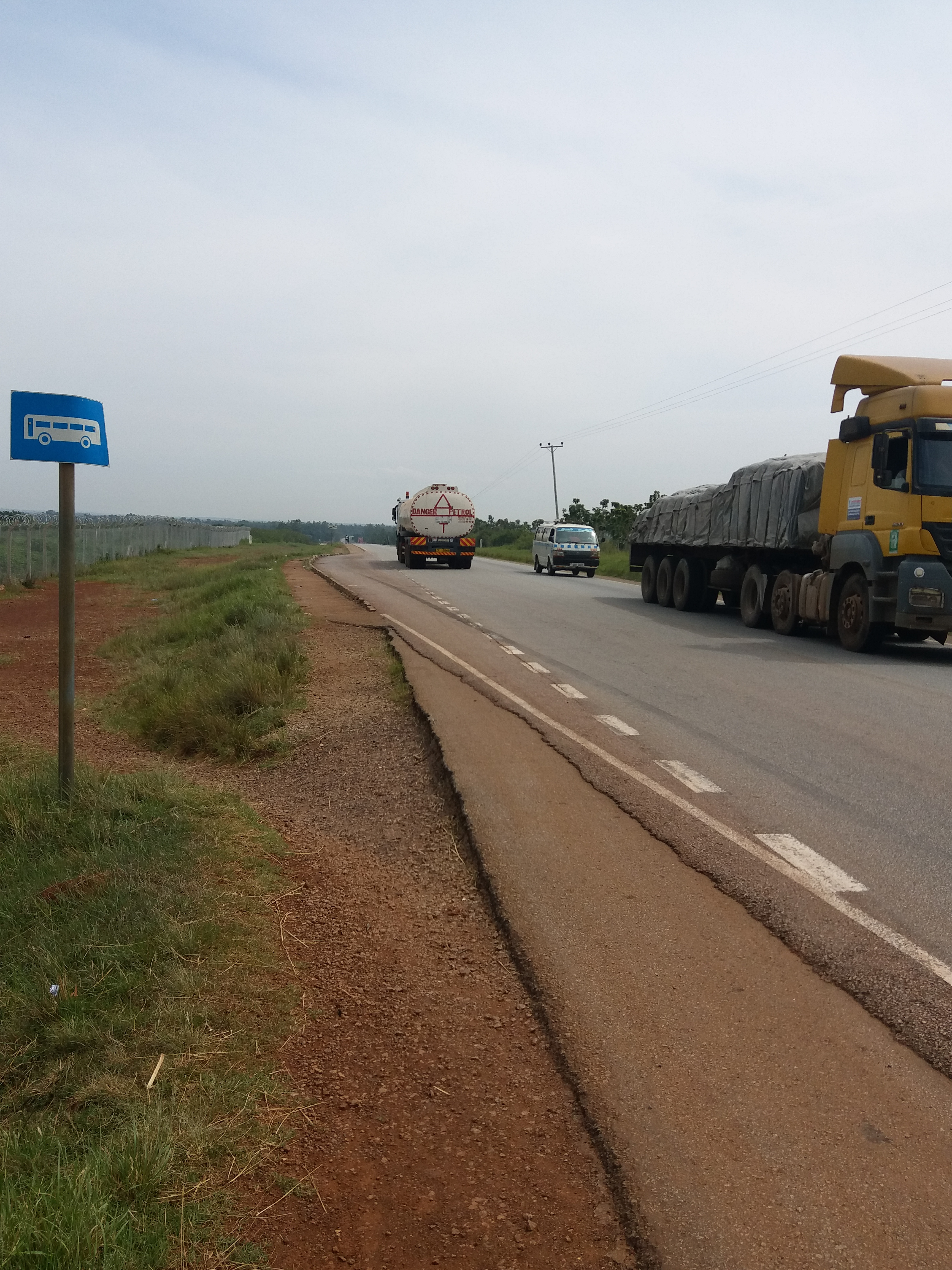 The taxi behind the truck is transporting people to Kampala from Tororo This is an image with the theme "Africa on the Move or Transport" from: Uganda